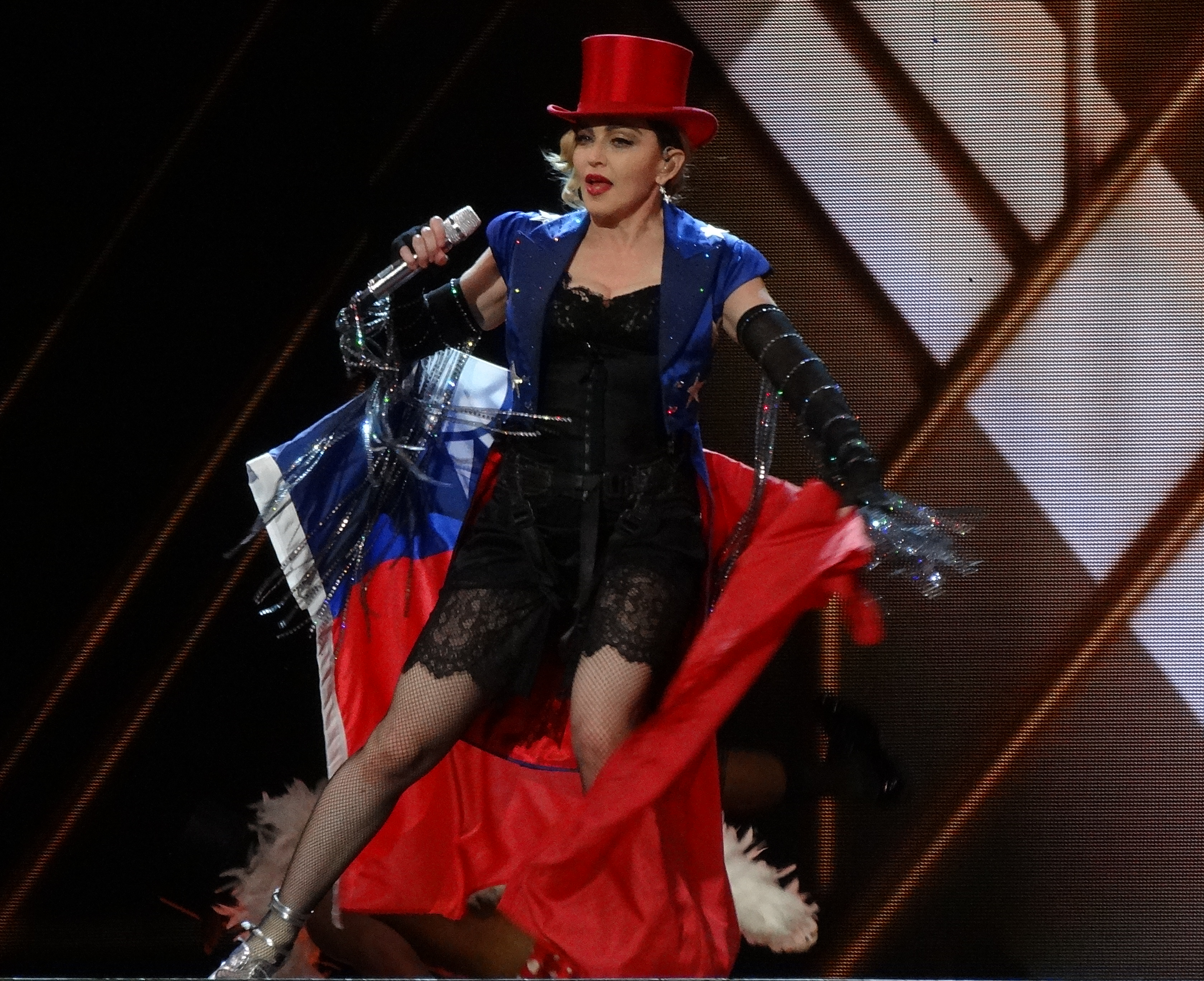 Live in Taiwan Rebel Heart Tour